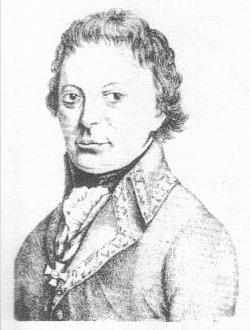 Konstantin d'Aspre von Hoobreuk (1754-1809), Austrian general